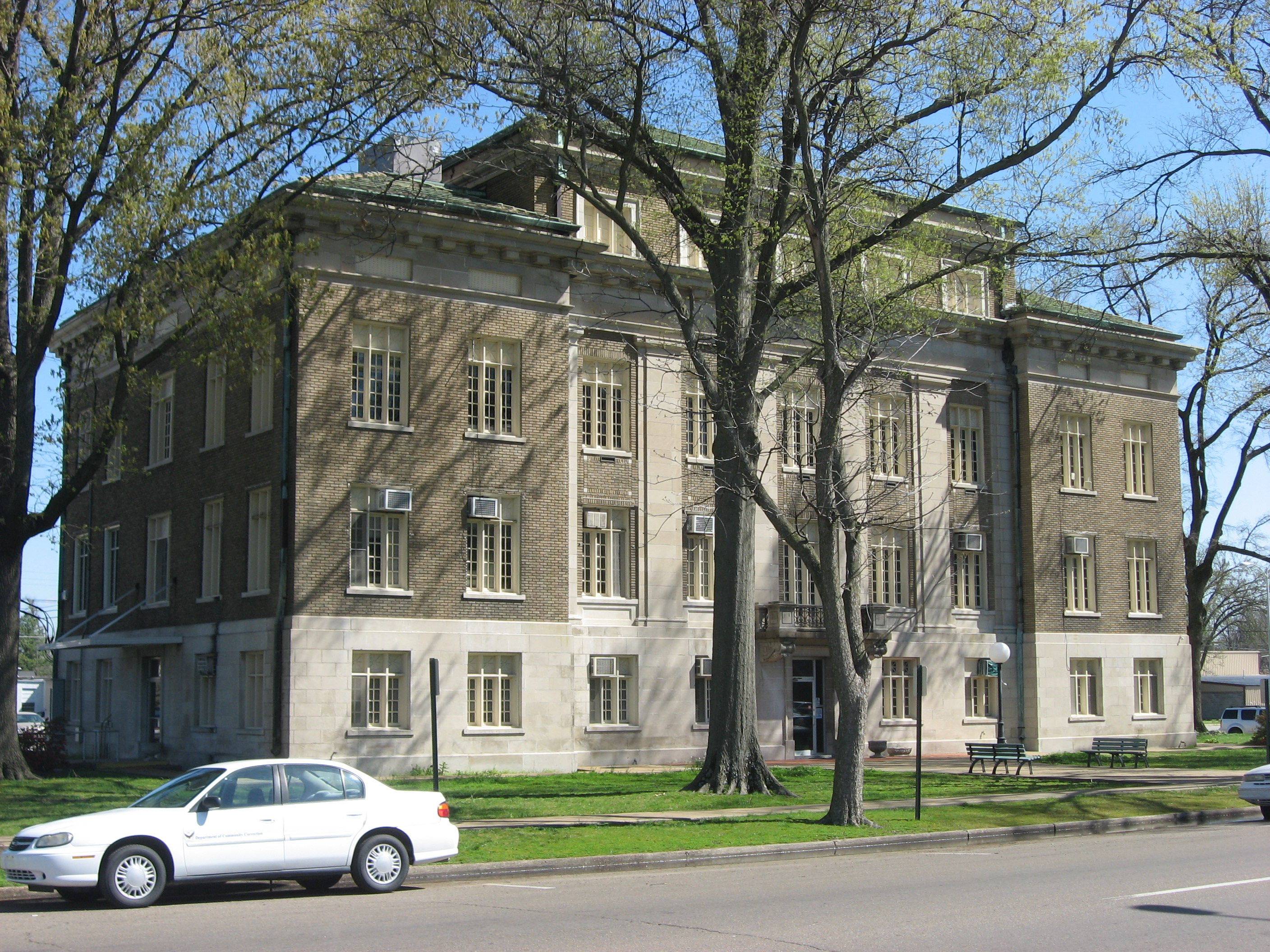 Front and western side of the Mississippi County Courthouse, located at 200 W. Walnut Street in Blytheville, Arkansas, United States. Built in 1919, it is listed on the National Register of Historic Places.